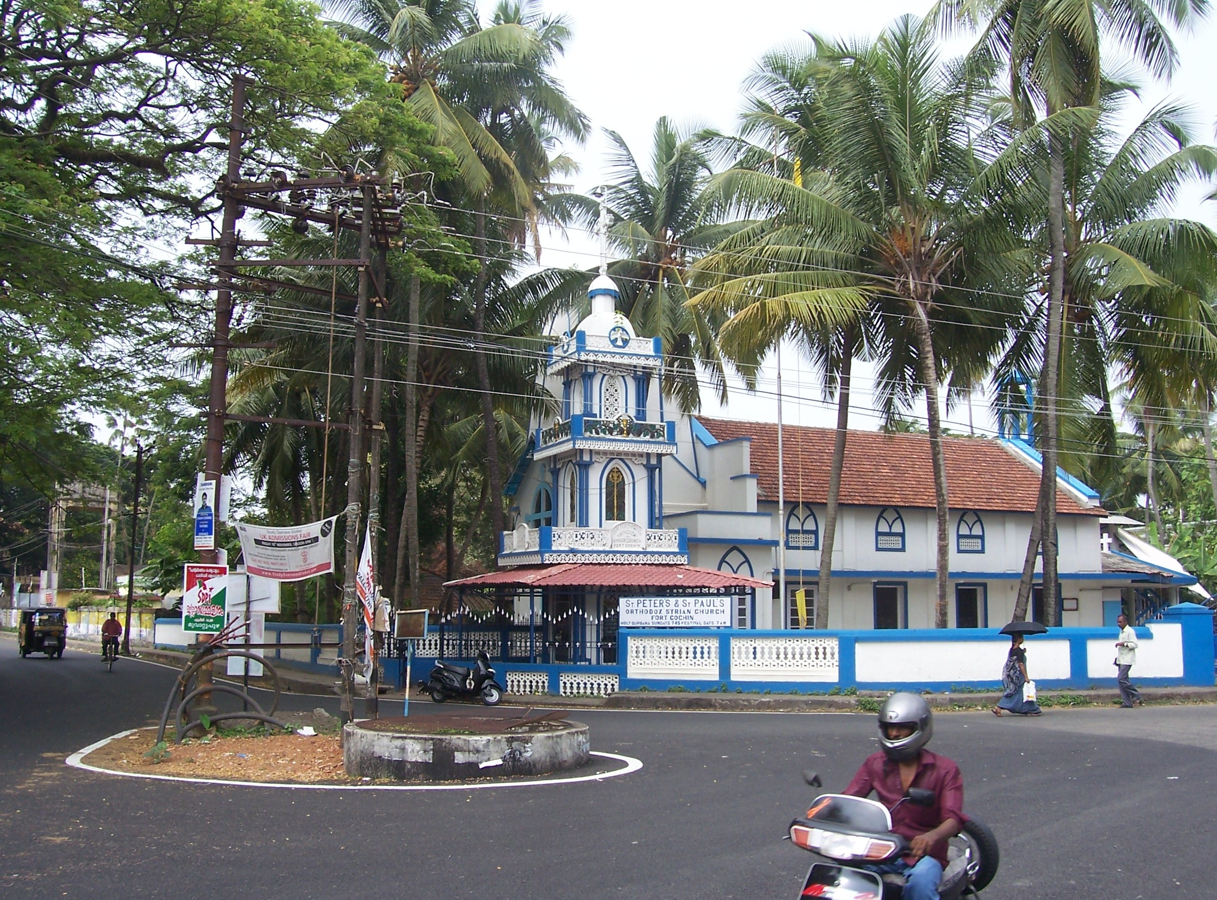 Syrian church of Kochi (Fort Cochin)